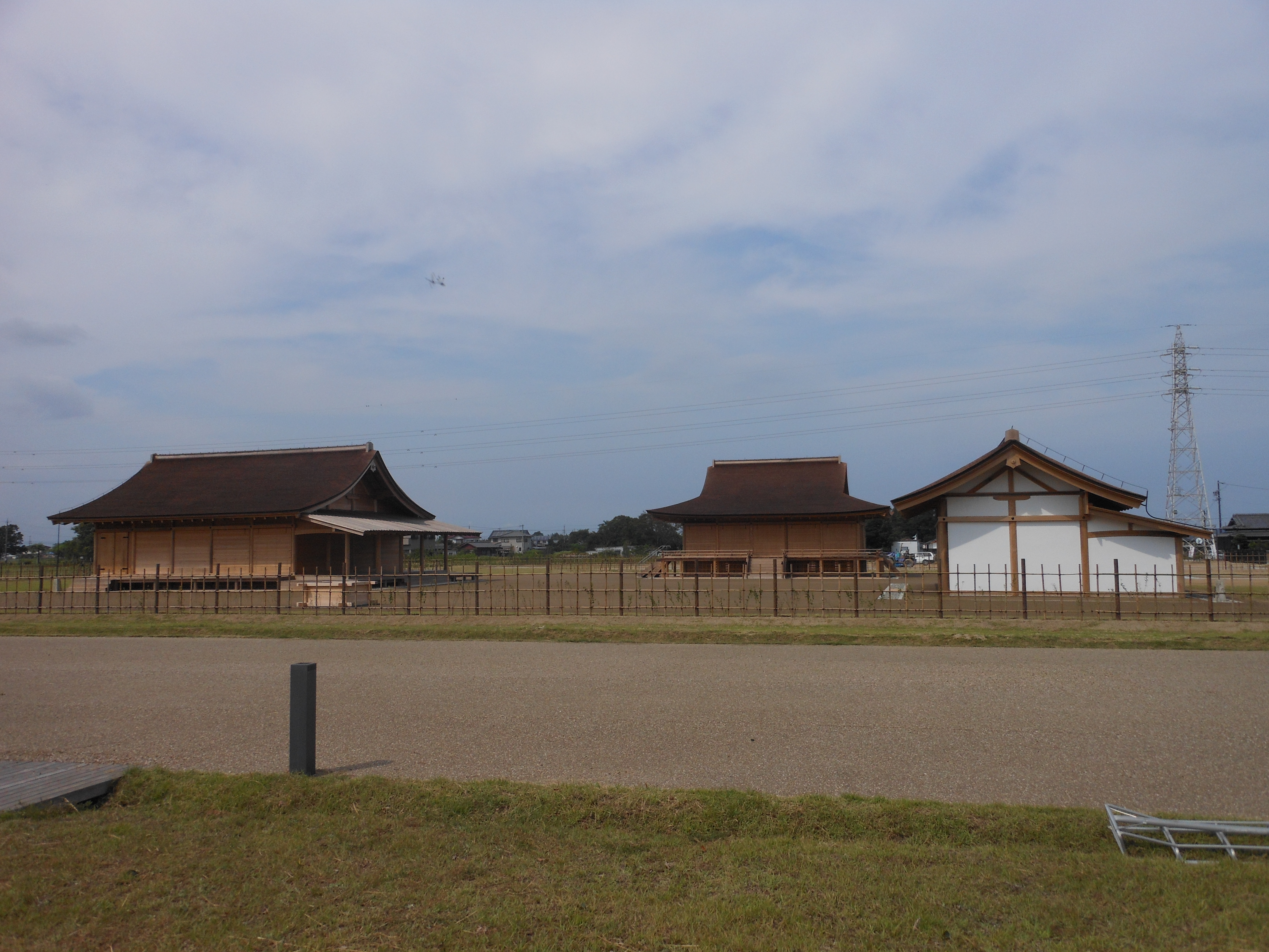 This is a site of Saiokyu, ancient government buildings. It is located Meiwa, Mie, Japan.